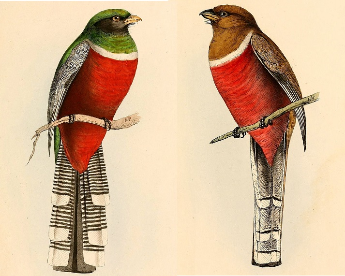 File created using two drawings from William Swainson of Trogon collaris male and female